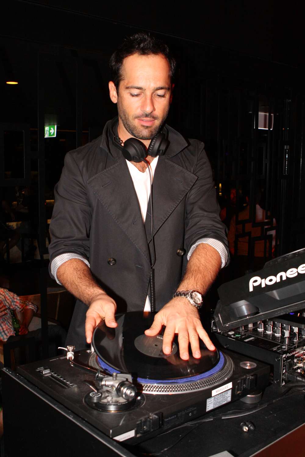 Alex Dimitriades at the Star Sydney